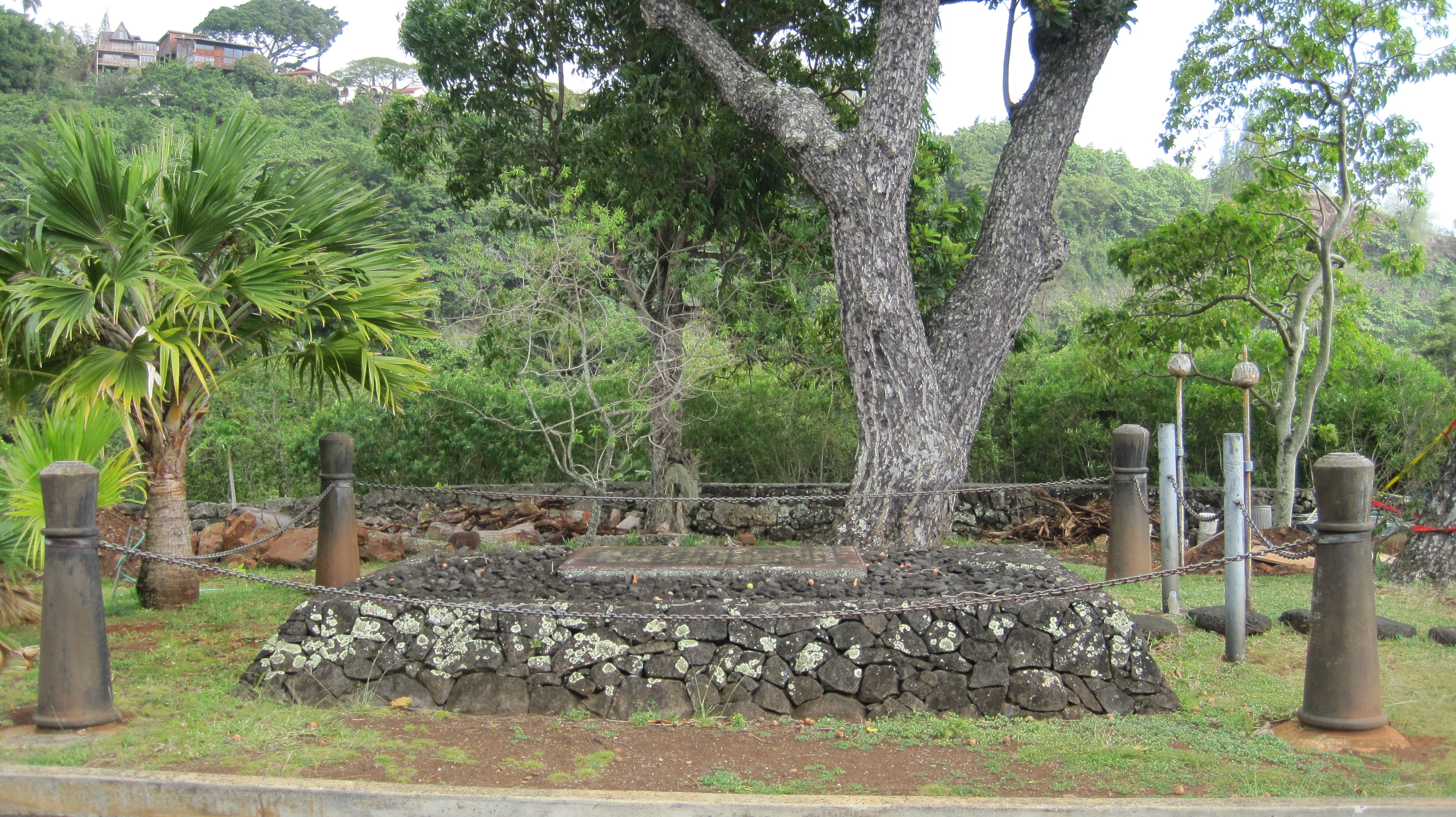 Grave of John Young (Hawaii) in the Royal Mausoleum of Hawaii, Honolulu